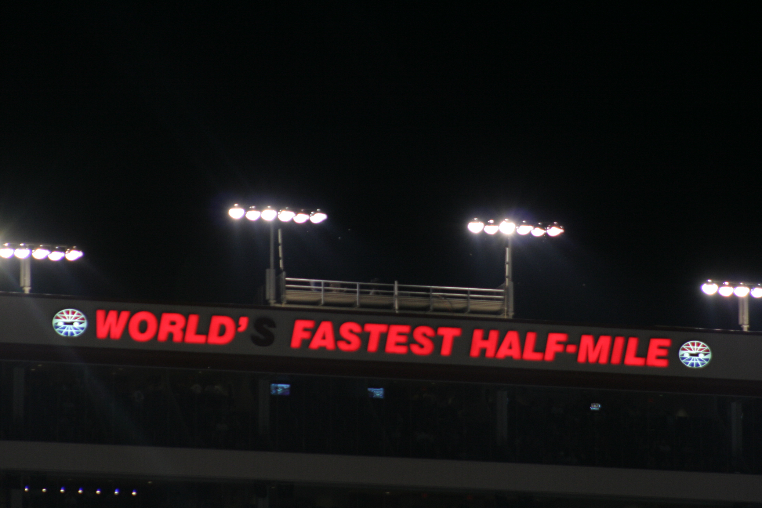 The sign proclaiming Bristol Motor Speedway the "World's Fastest Half-Mile"